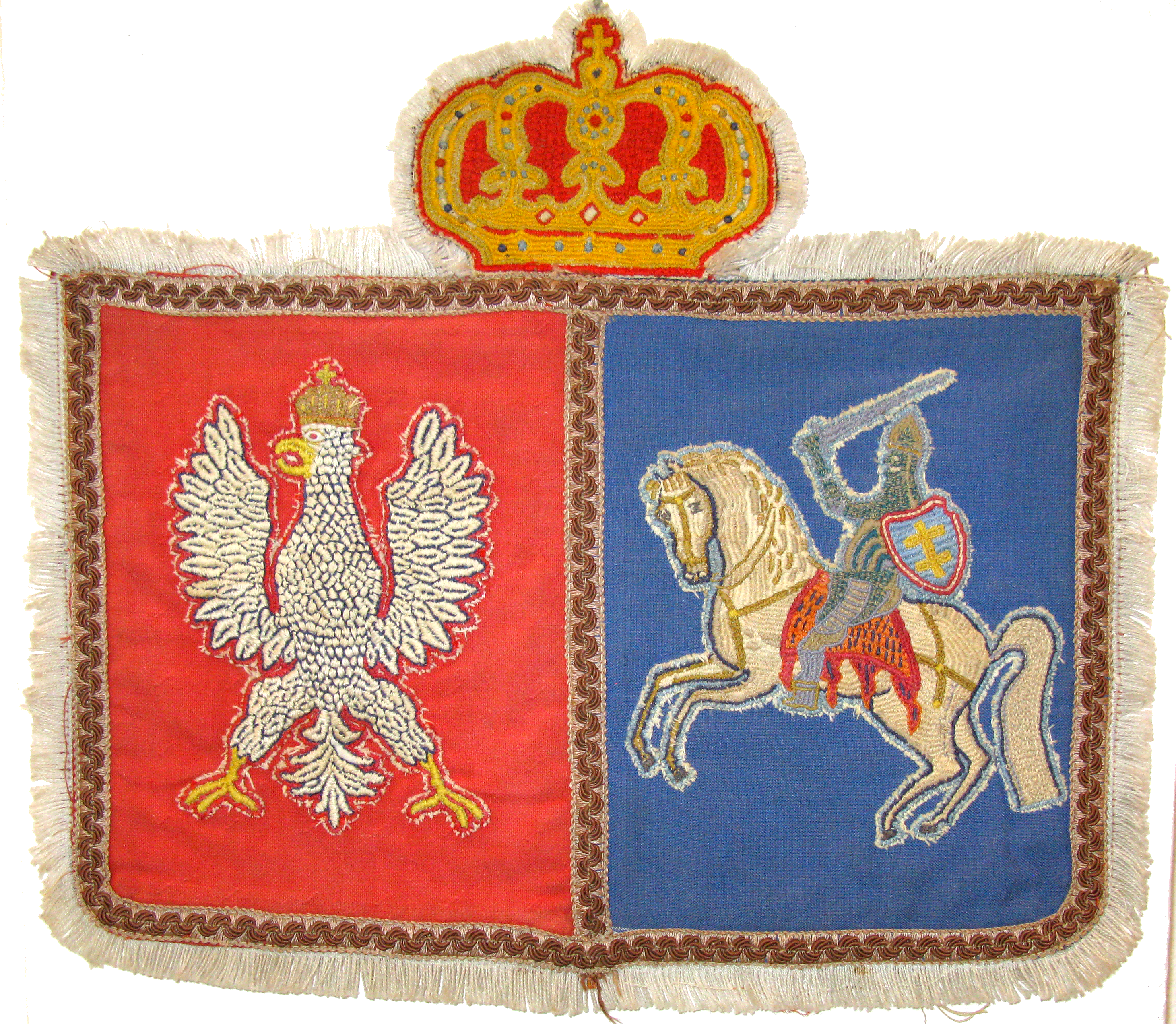 Banner with emblem of November Uprising